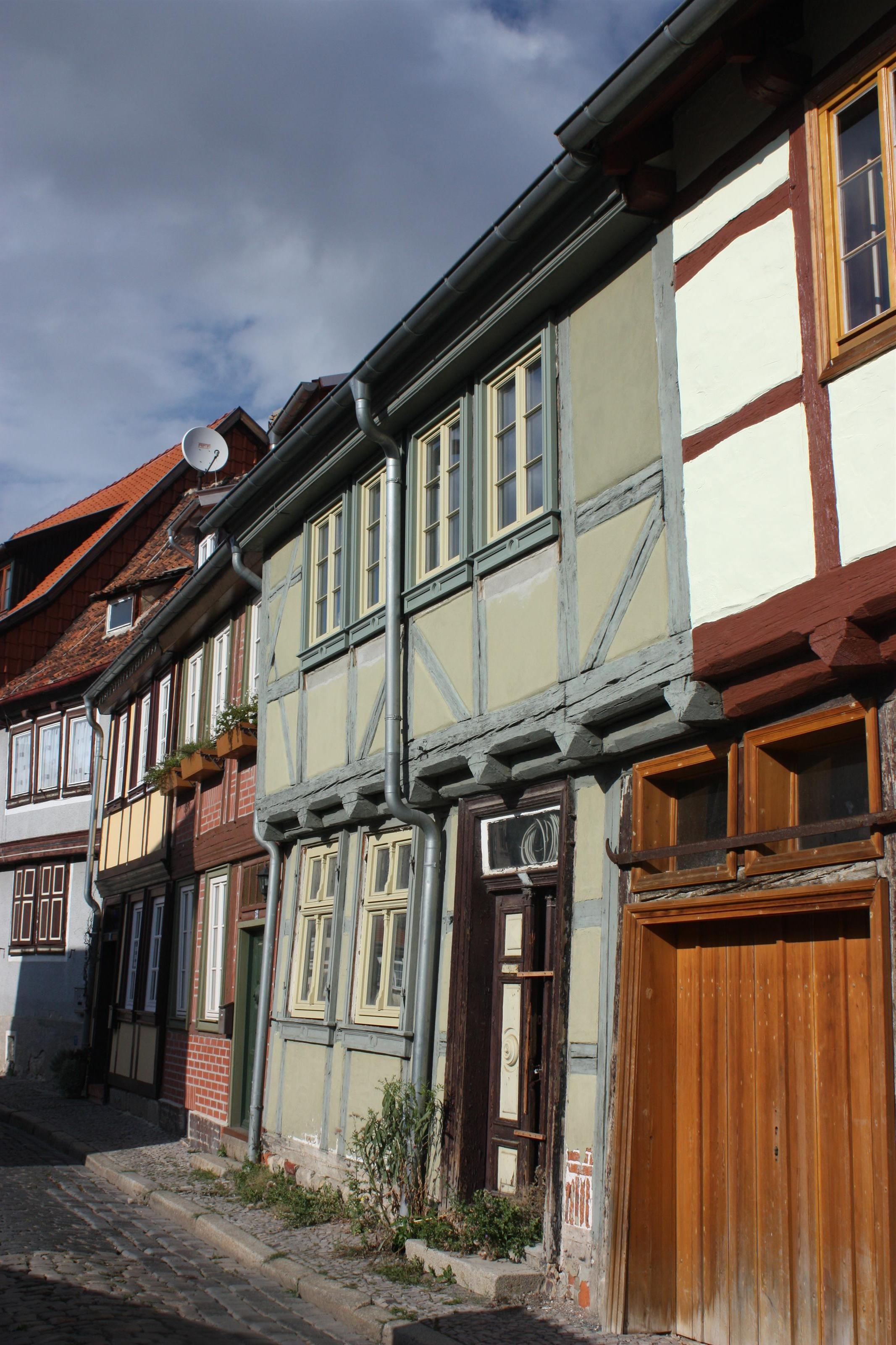 This is a photograph of an architectural monument.It is on the list of cultural monuments of Quedlinburg Augustinern 54 in Quedlinburg